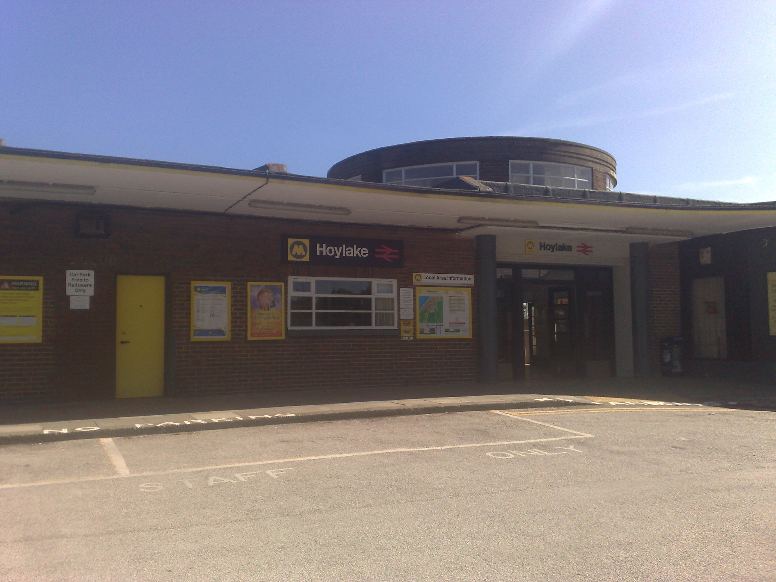 The outside of hoylake train station, as viewed from the car park